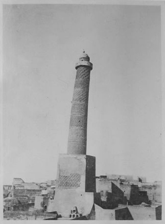 Mosul, Iraq, World War I, 1918-1919